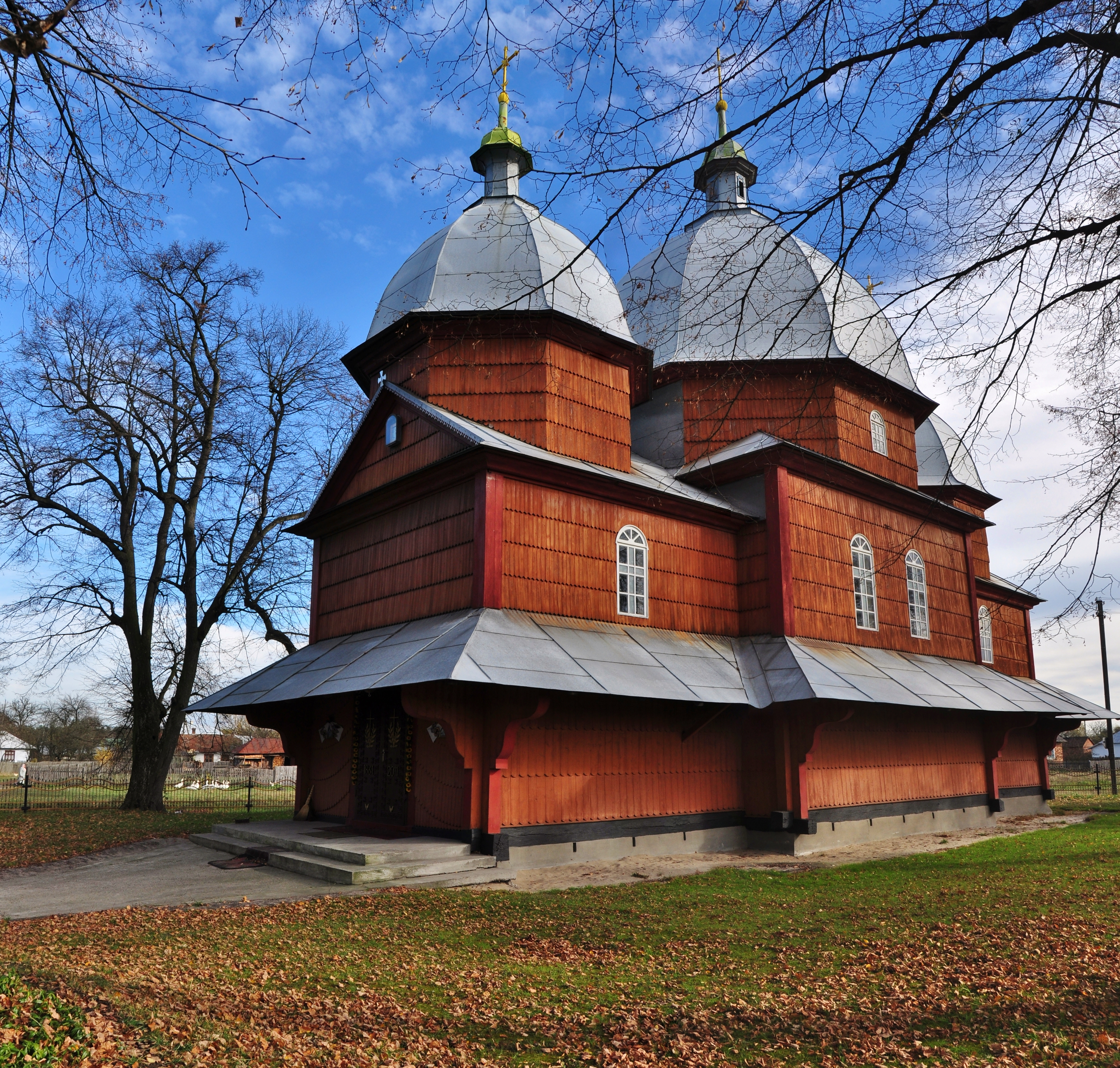 Wooden Church of Assumption of Mary, Tyshycia village, Kamianka-Buzka Raion, Lviv Oblast